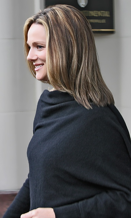 Laura Linney at the 2007 Toronto International Film Festival